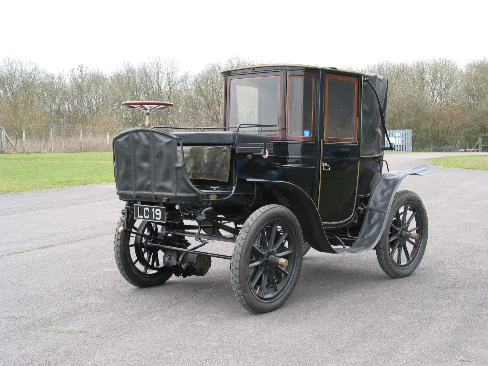 1904 Krieger electric brougham made by Compagnie Parisienne des Voitures Electriques (precede Krieger) at Courbevoie, Seine, France LC19 is still in full working order, has a top speed of about 18-20 miles per hour, weighs about 2 tonnes, and can travel about 50 miles when the batteries are fully charged —roughly the same as a modern electric car. Science Museum Inv. No: L2004-4071